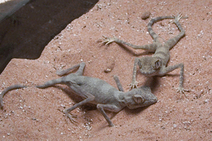 Agamura persica female digging before laying eggs. Male present above.